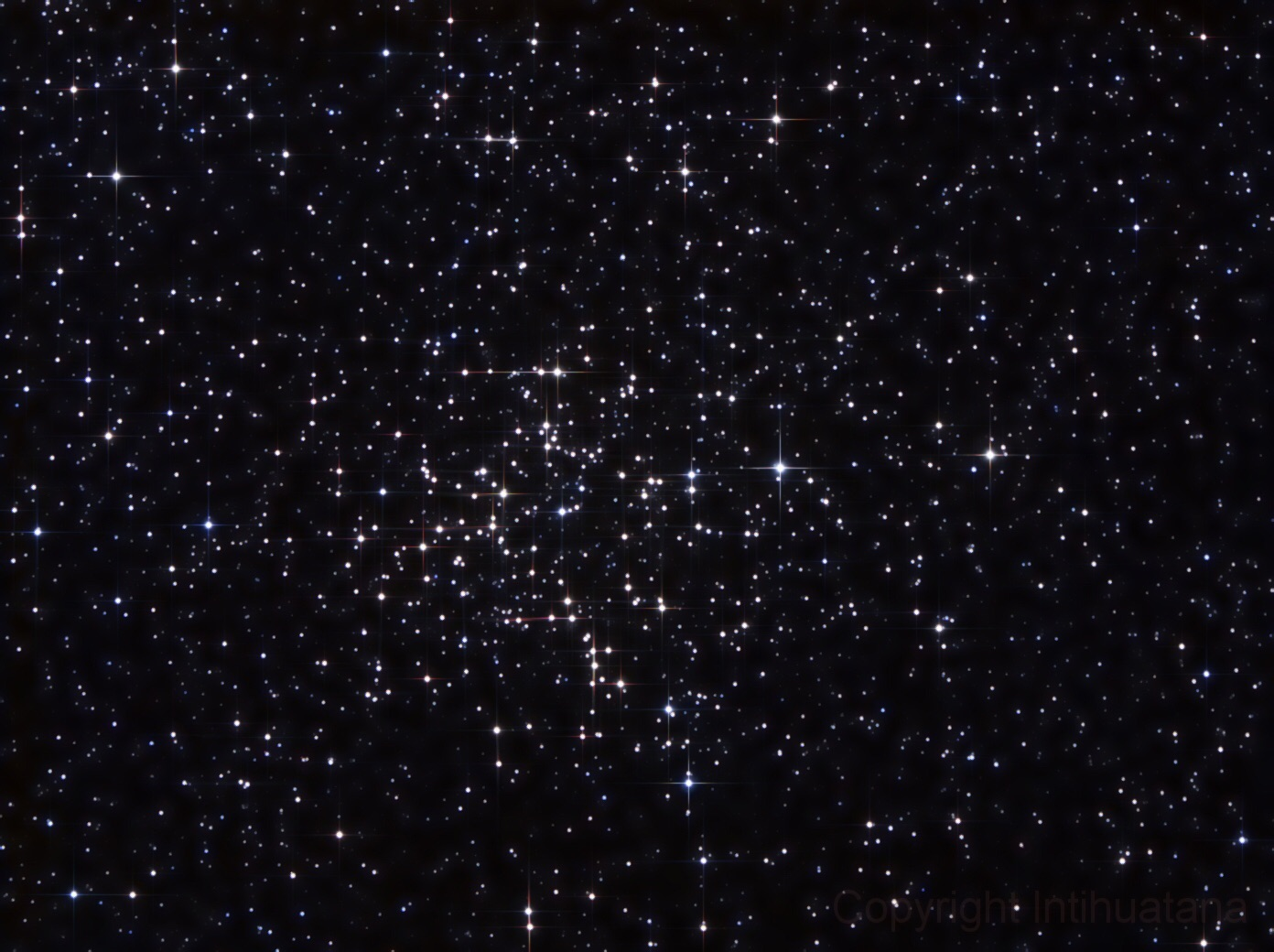 Open Cluster M38, 18 x 300 seconds exposures, Takahashi 102 f/6 refractor. Feb 19, 2015. Taken in Weston, FL